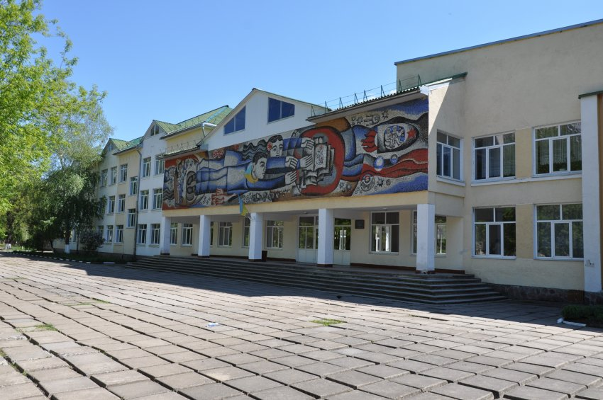 School of general education №2